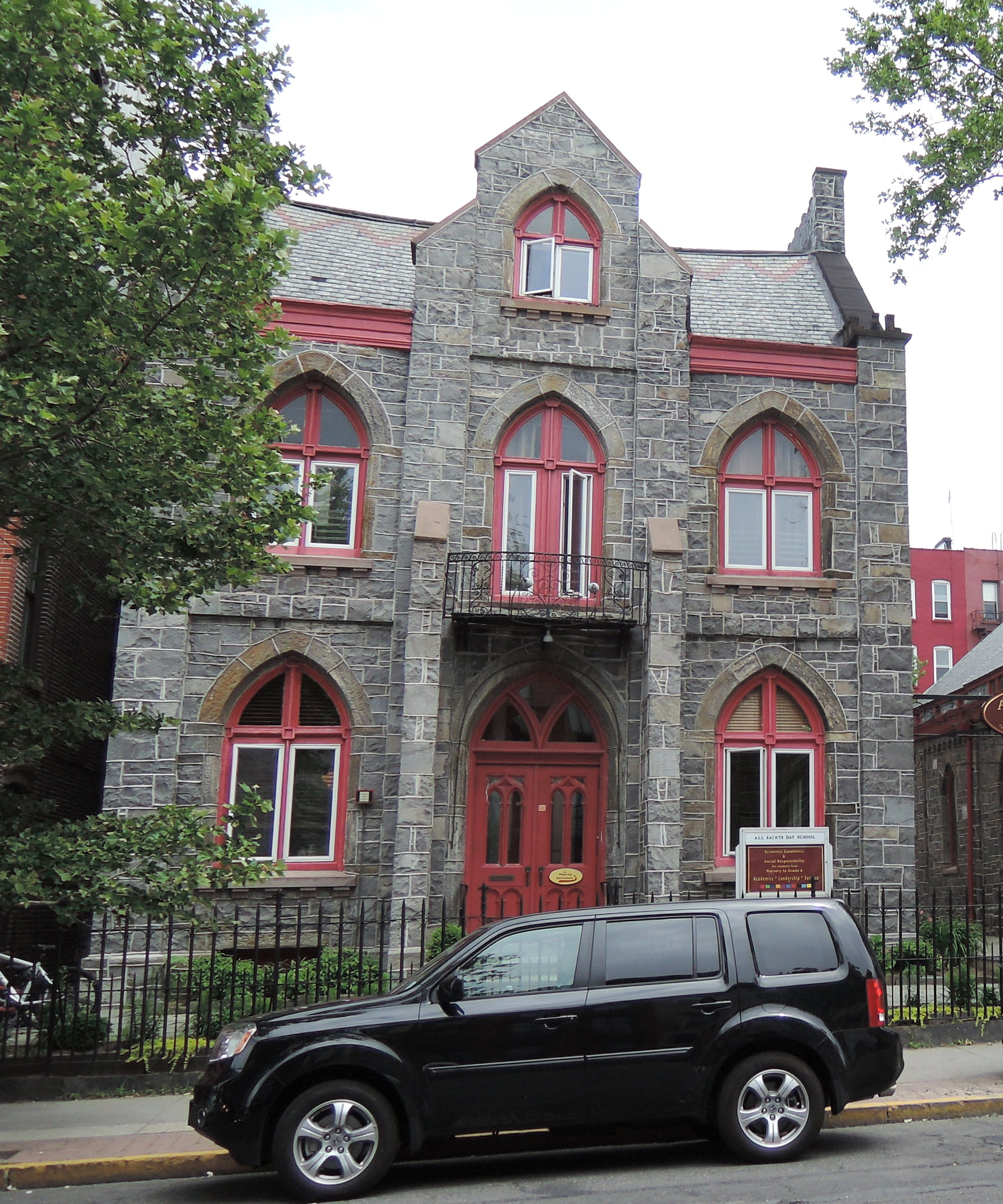 Looking east across Washington Street on a cloudy day.